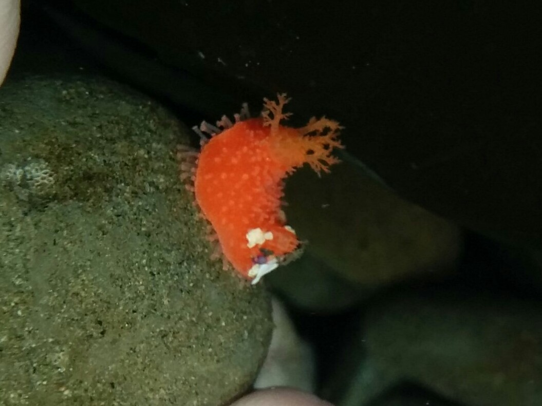 Scarlet Dwarf Sea Cucumber (Lissothuria nutriens) in Palo Alto.